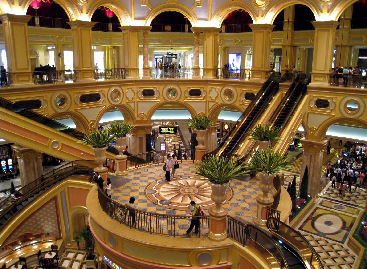 The Venetian Macao The Great Hall 澳門威尼斯人大運河購物中心中庭